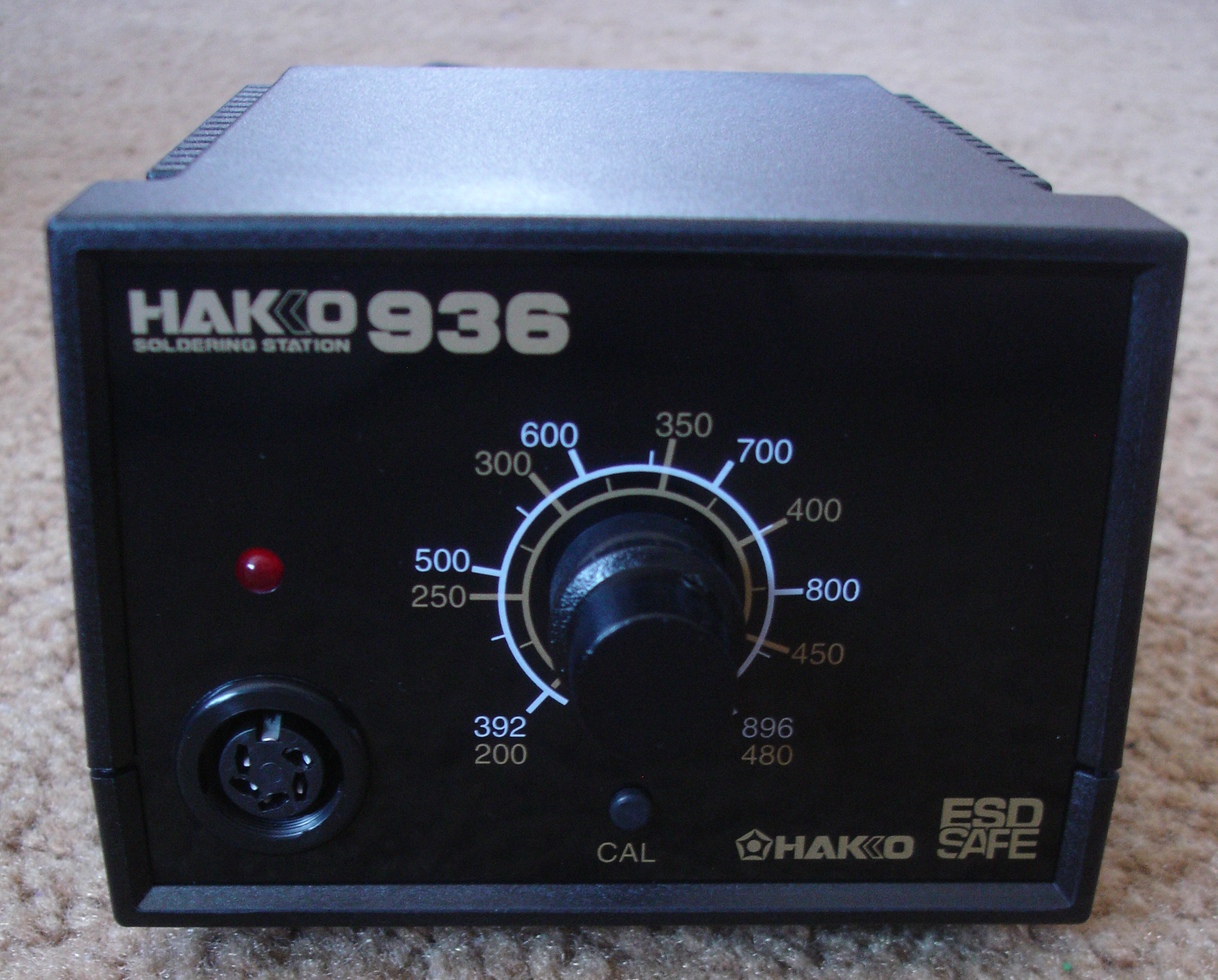 Hakko 936 ESD soldering station.